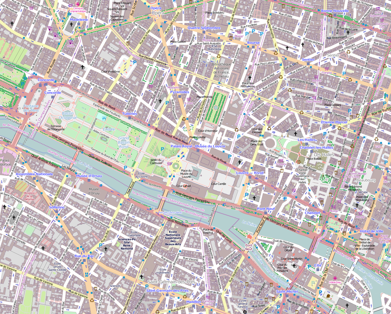 Map Paris 4ième arrondissement.